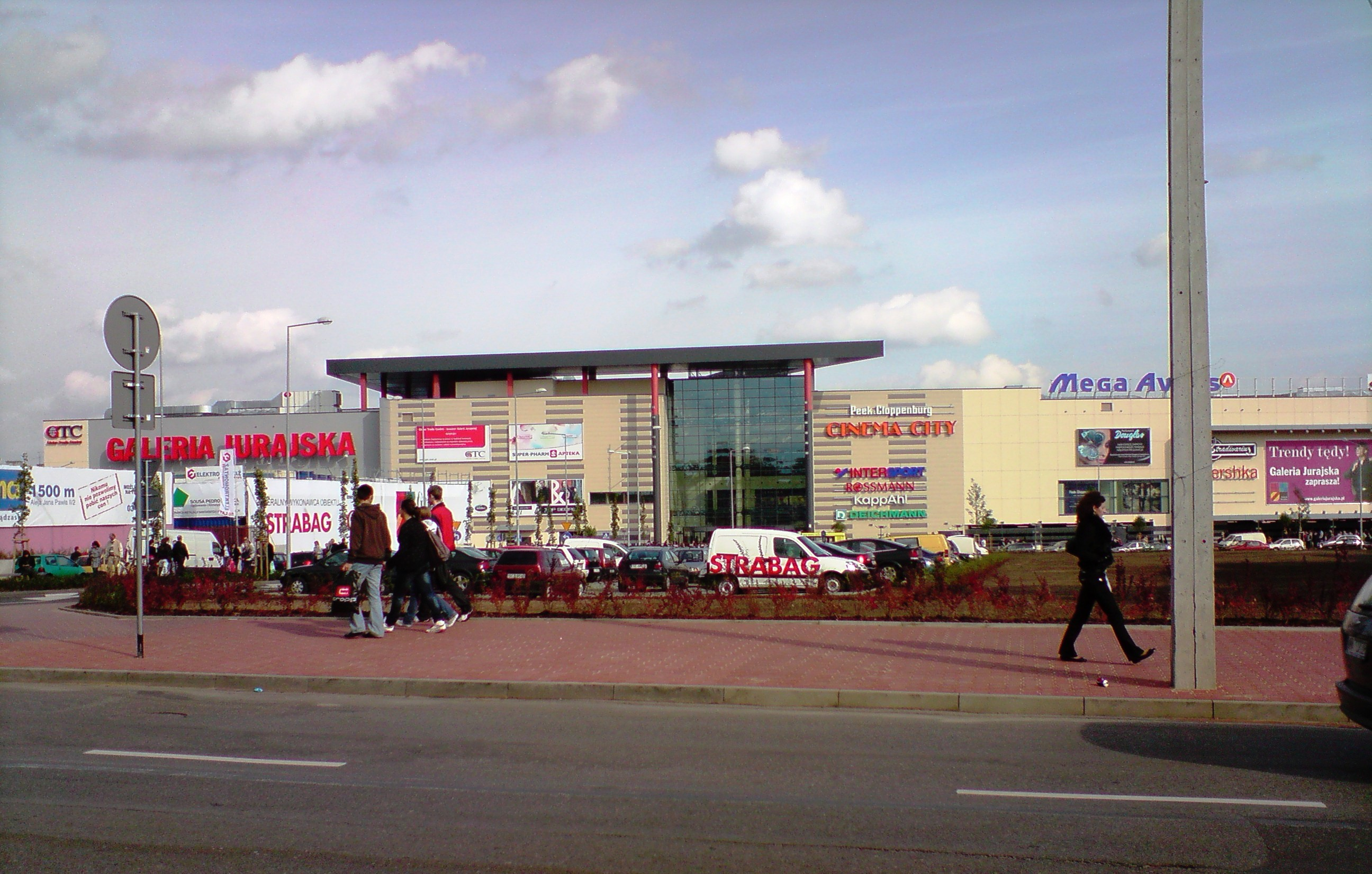 Galeria Jurajska widziana od ulicy Krakowskiej